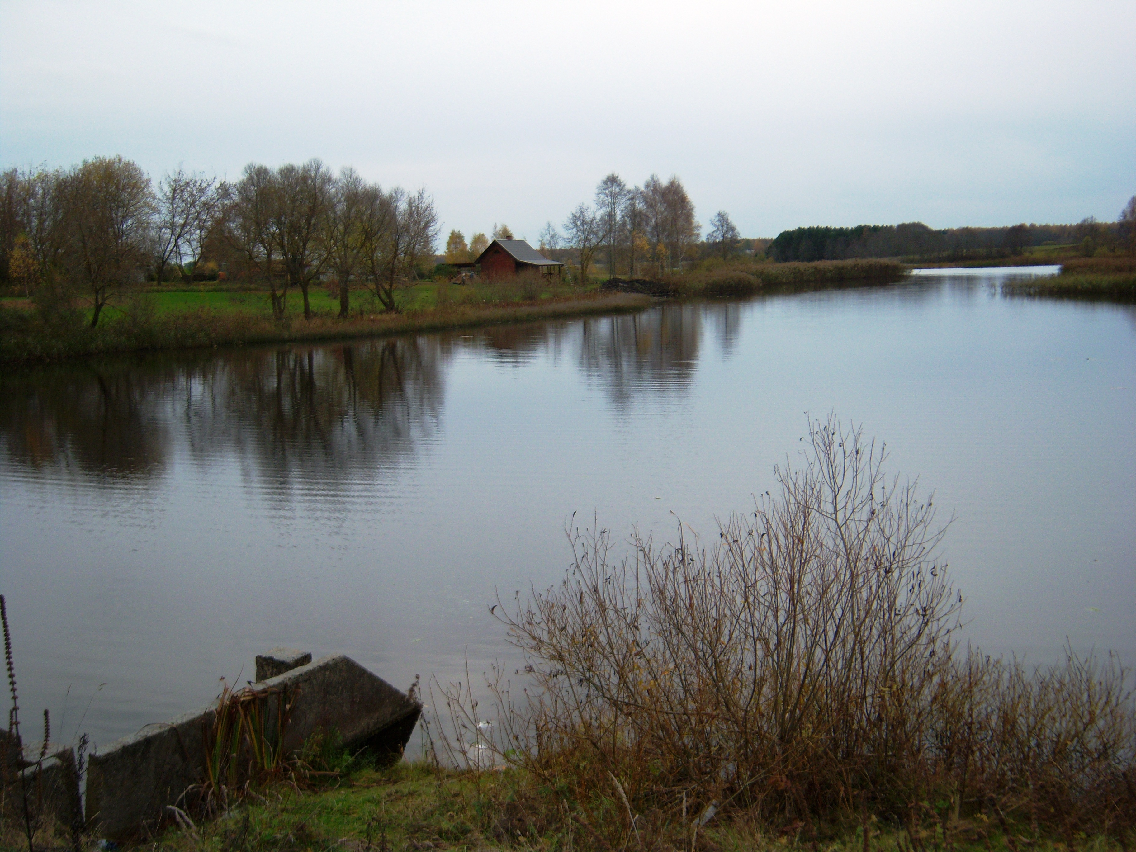 Pelyšų Pond by Žliobiškiai, Anykščiai District, Lithuania